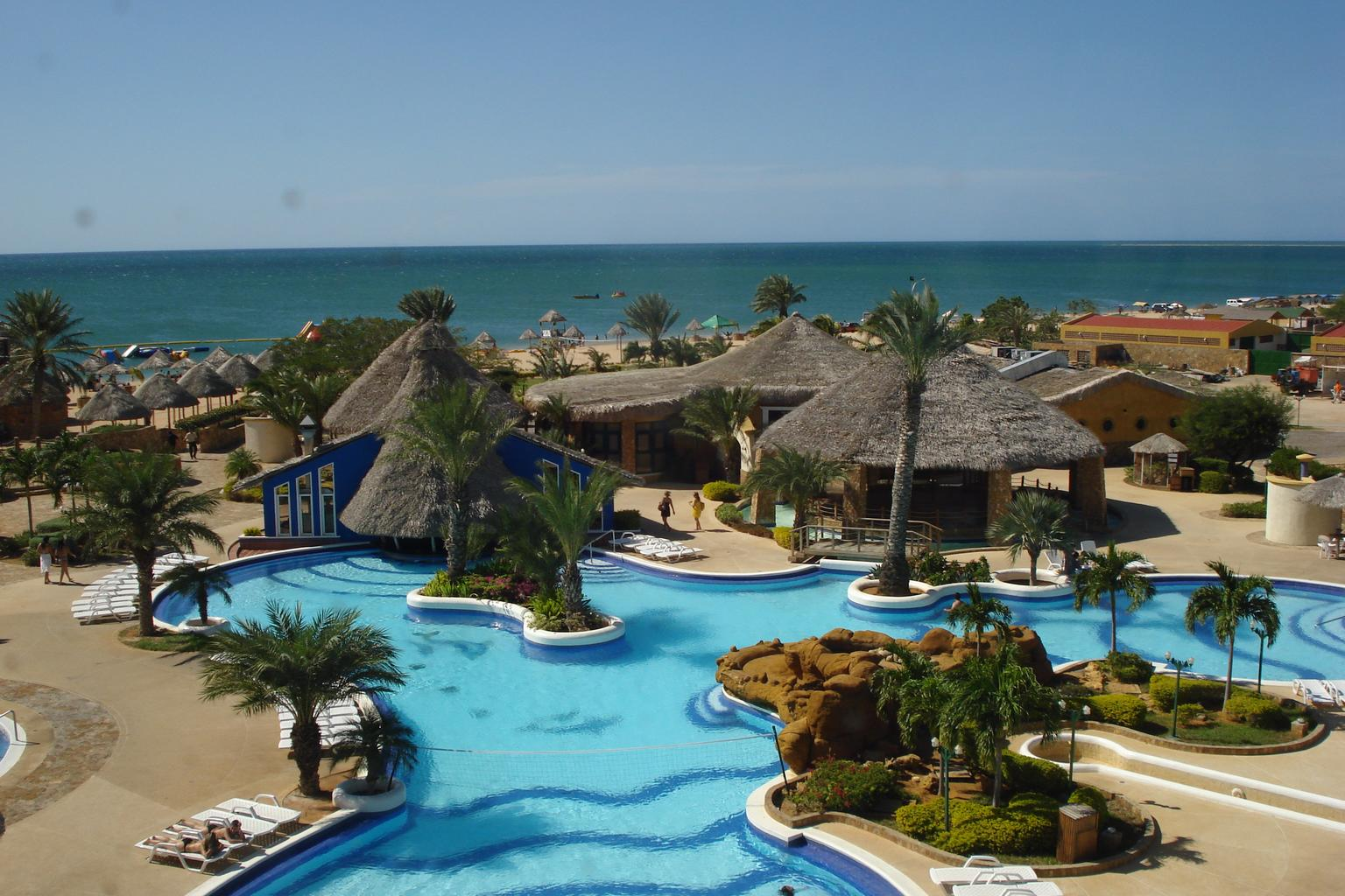 View of the Hotel Eurobuilding Villa Caribe from the 4th floor, this hotel is located in Villa Marina beach, Peninsula of Paraguana, Venezuela.